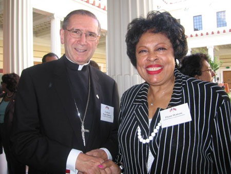 Roman Catholic Cardinal Roger Mahony and United States Congresswoman Diane Watson (D) of California